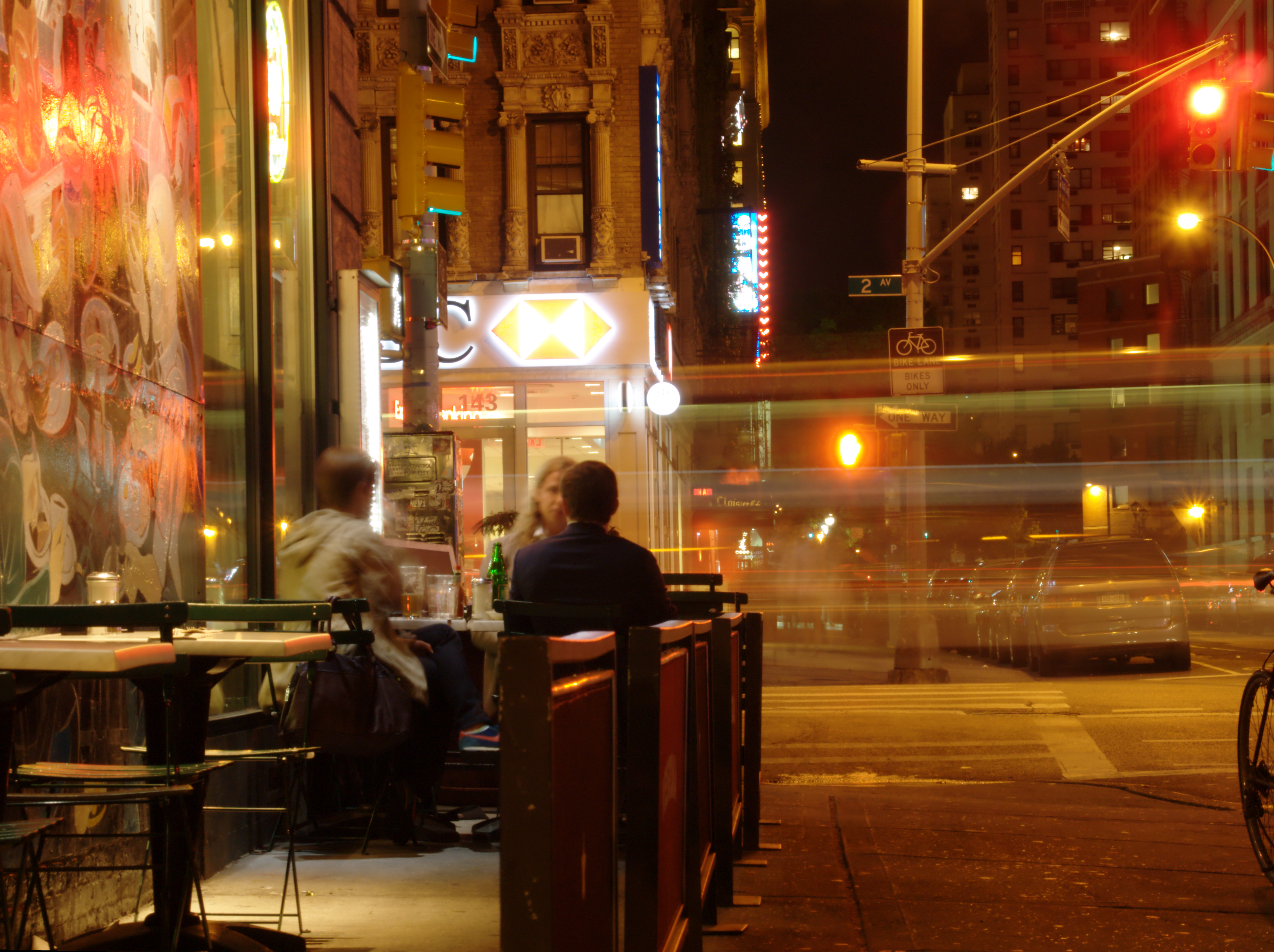 East Village Sidewalk After Dark (New York, NY)